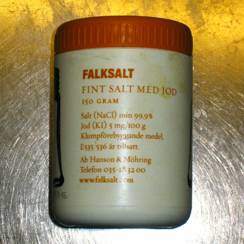 Salt with potassium iodide (KI)